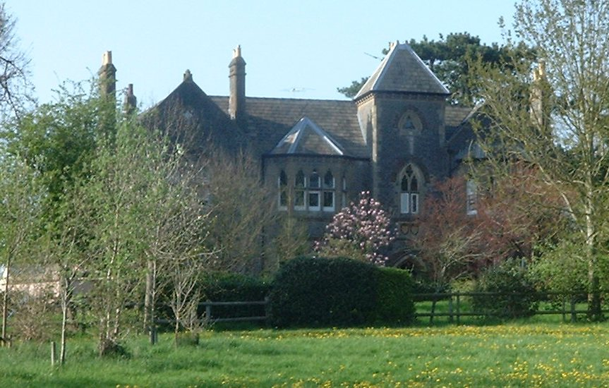 The Old Rectory in Chew Stoke. Taken by Rod Ward 26th April 2006